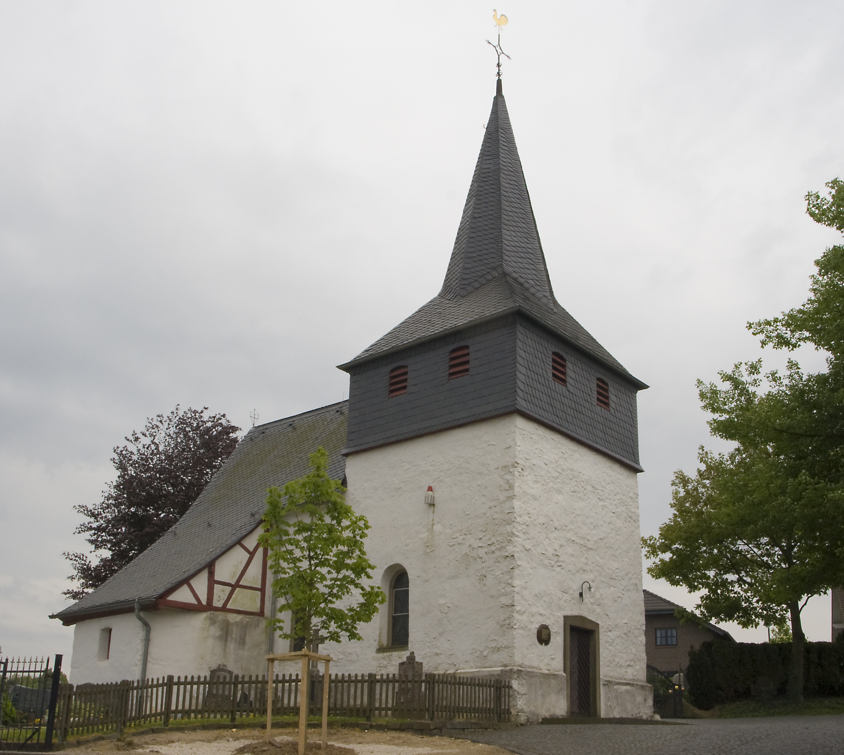 "St. Gertrudis", chapel in Oedingen, quarter of Remagen